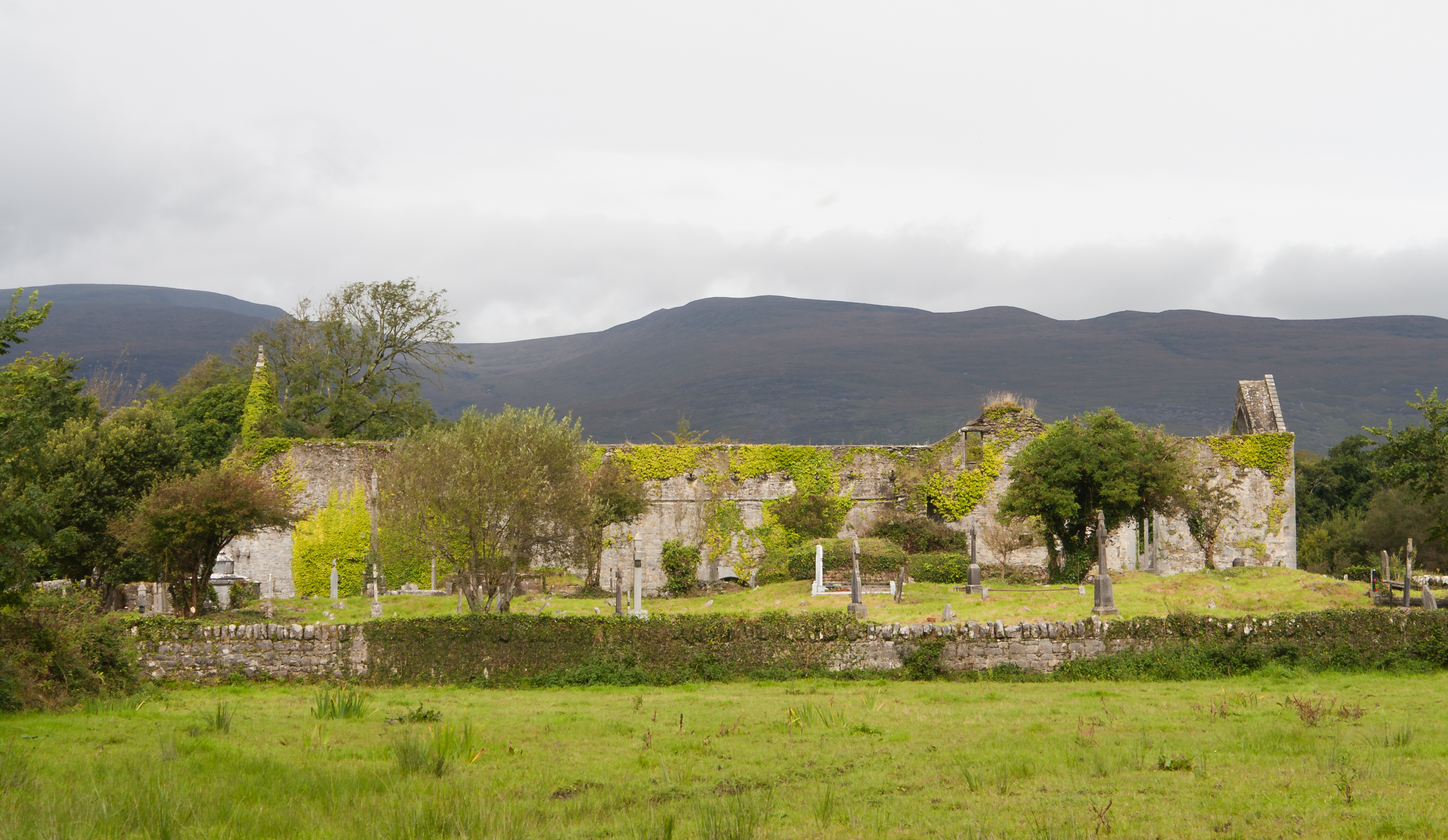 South range of Killagh Priory with the Slieve Mish Mountains in the background.